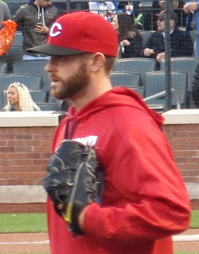 Caleb Cotham with the Cincinnati Reds, April 27, 2016.